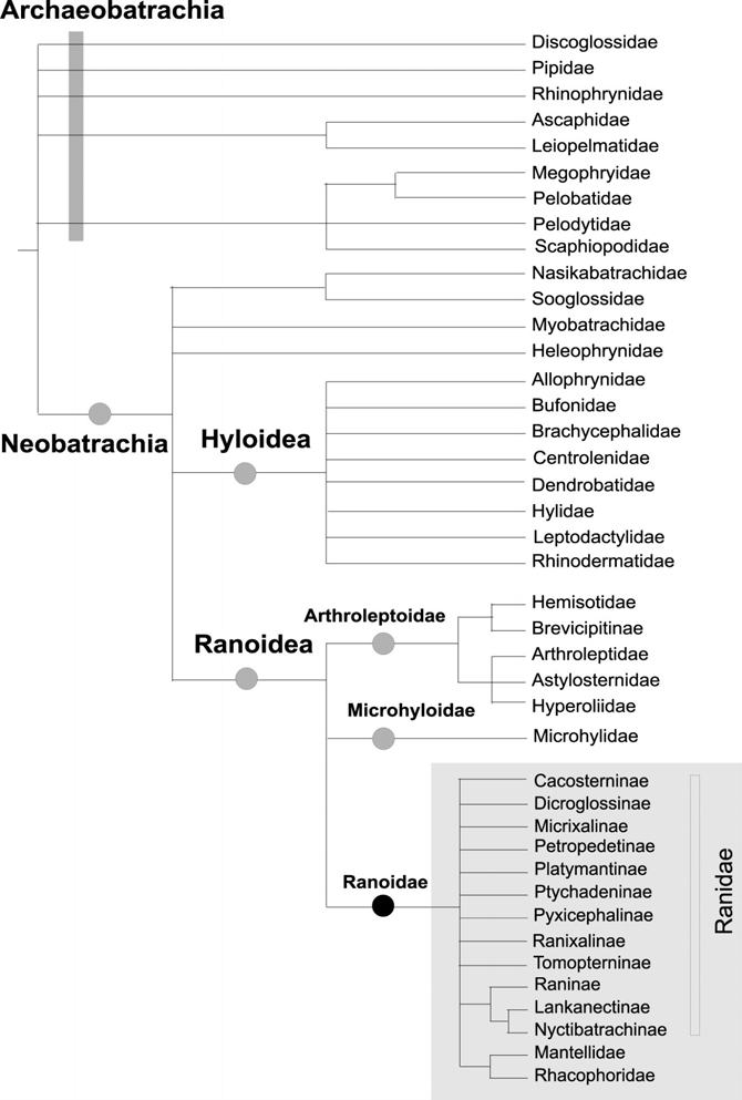 Abstract Knowledge of evolutionary relationships form the basis of every comparative study in biology. Advancement of the knowledge of amphibian relationships is especially imperative because of the global decline of amphibian populations. Due to a general paucity of characters and an apparently general high level of homoplasy, the systematics of ranoid frogs have remained disputed. In this thesis we address the systematics of several groups of ranoid frogs and related taxa using the molecular characters provided by DNA sequences Kenntnisse der evolutiven Verwandtschaftsverhältnisse bilden die Grundlage jeder vergleichenden Studie in der Biologie. Eine Erweiterung des Wissens über die Verwandtschaftsverhältnisse der Amphibien ist besonders erforderlich aufgrund der weltweit schrumpfenden Amphibienpopulationen. Durch einen generellen Mangel an Merkmalen und einem offensichtlich hohen Grad an Homoplasie bleibt die Systematik ranoider Frösche umstritten. In dieser Arbeit behandle ich die Systematik verschiedener Gruppen ranoider Frösche und verwandter Taxa unter Verwendung molekularer Merkmale, die aus der Analyse von DNA Sequenzen hervorgingen. Molecular phylogeny and biogeography of... (PDF Download Available). Available from: [accessed Apr 29 2018].